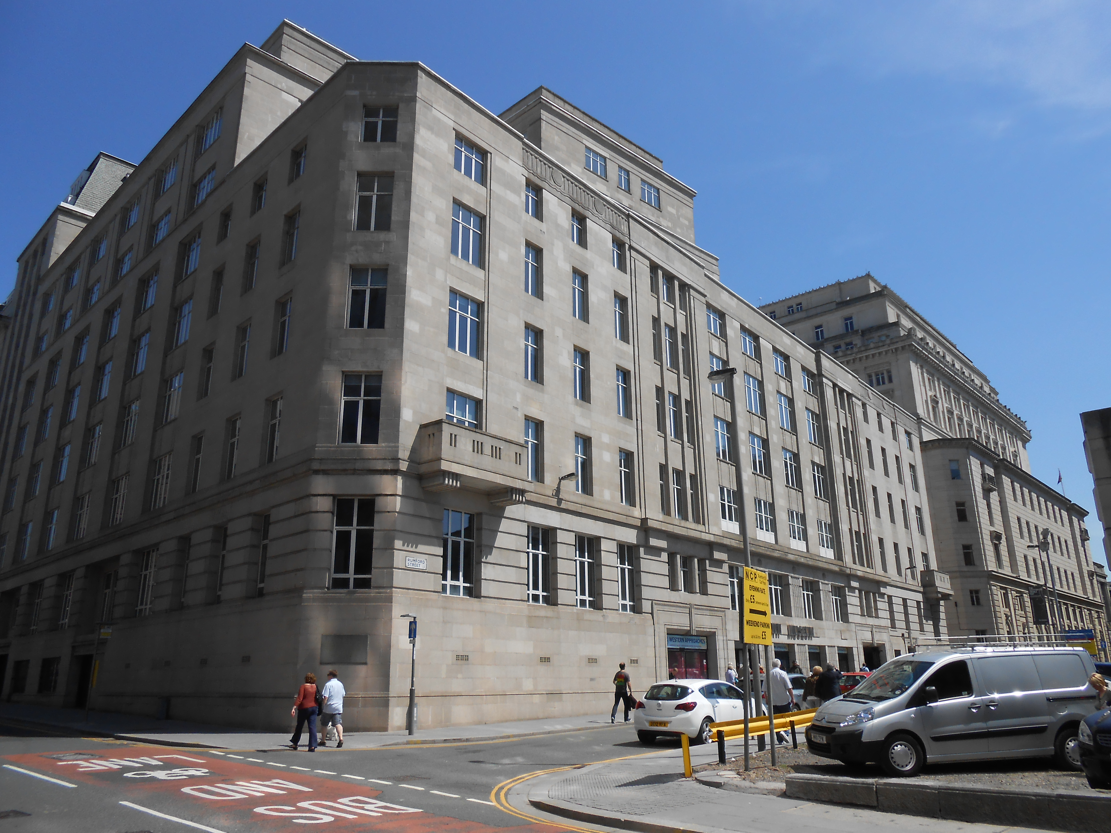 Looking from Chapel Street towards Western Approaches - Liverpool War Museum on Rumford Street, Liverpool, England.